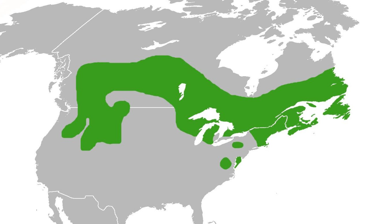 A map showing the distribution of Colias interior.